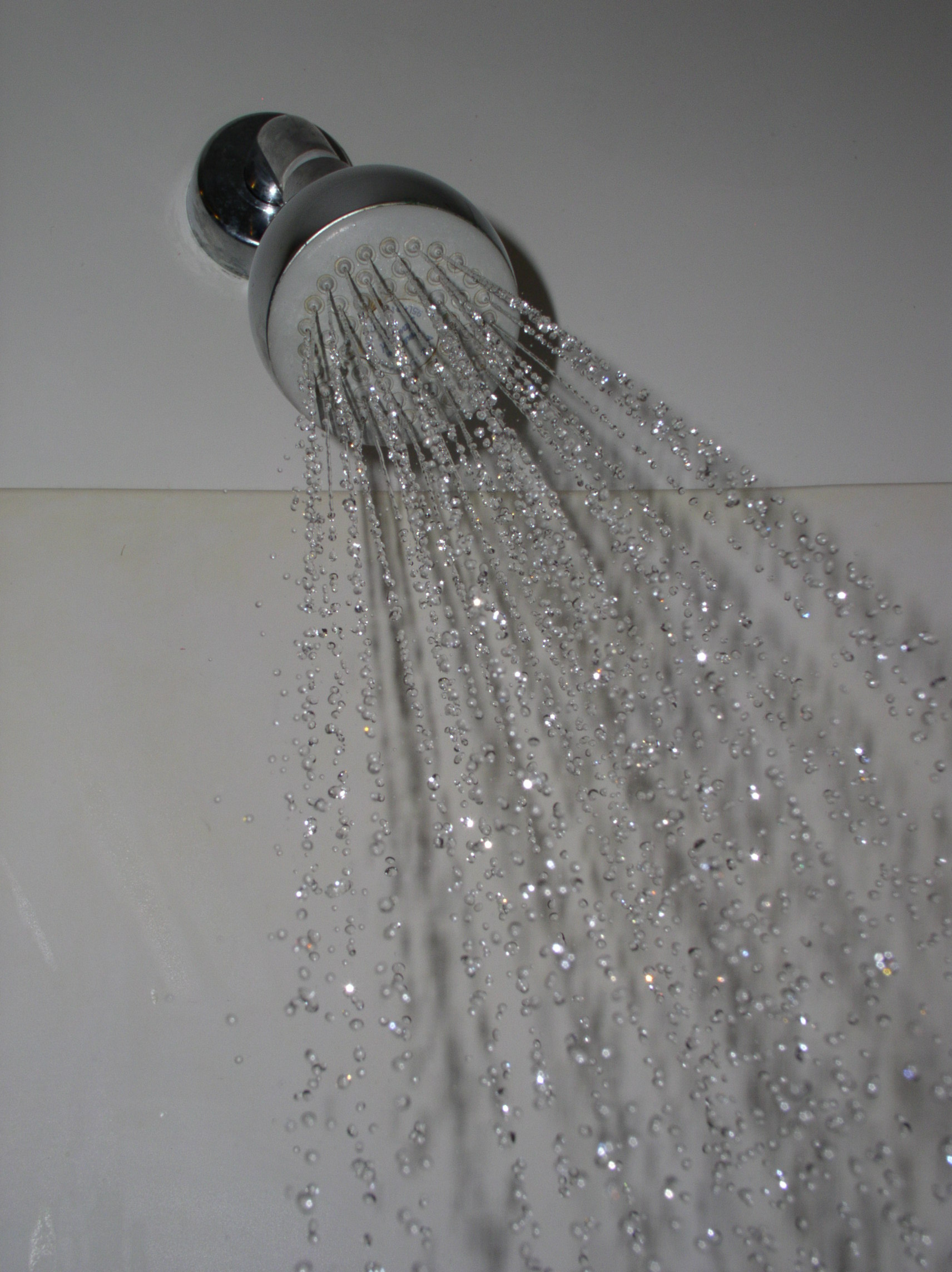 shower head